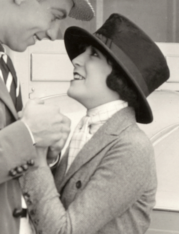 Virginia Fox and an unidentified actor from a scene still from The Blacksmith (1922).